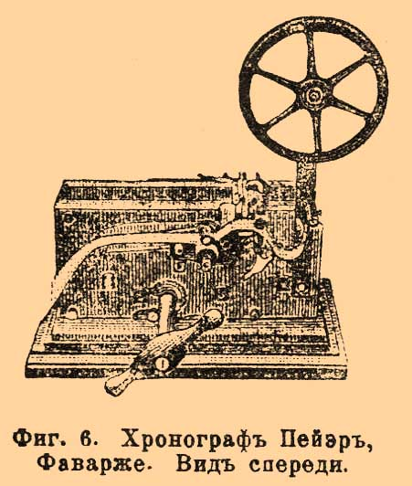 Illustration from Brockhaus and Efron Encyclopedic Dictionary (1890—1907)